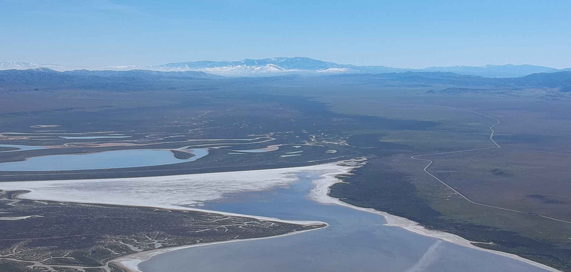 Mount Pinos as seen from Carrizo Plain National Monument